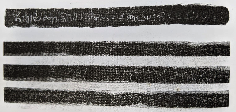 Siva Devale No. 1 Tamil inscriptions, Padaviya